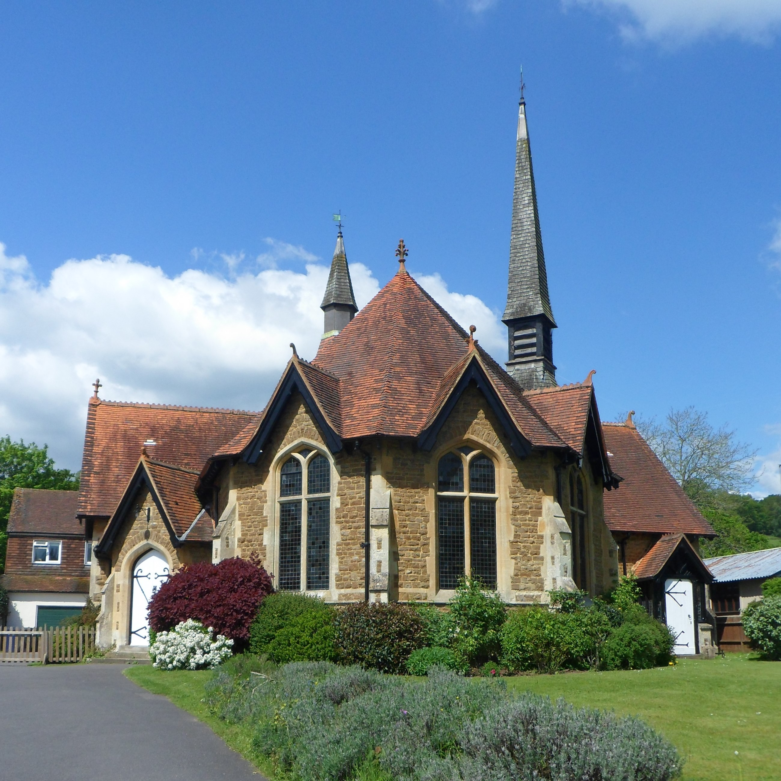 Wonersh United Reformed Church, Kings Road, Wonersh, Borough of Waverley, Surrey, England.